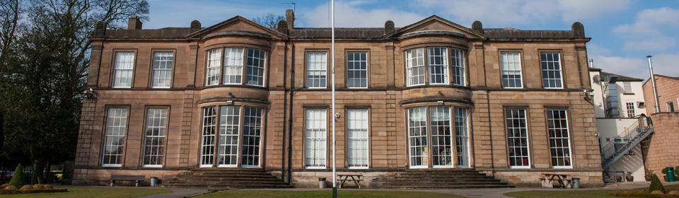 Front facade of Derby Grammar School, Derbyshire, UK